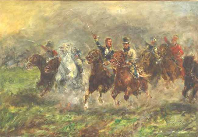 Marshal Ney leading a charge.